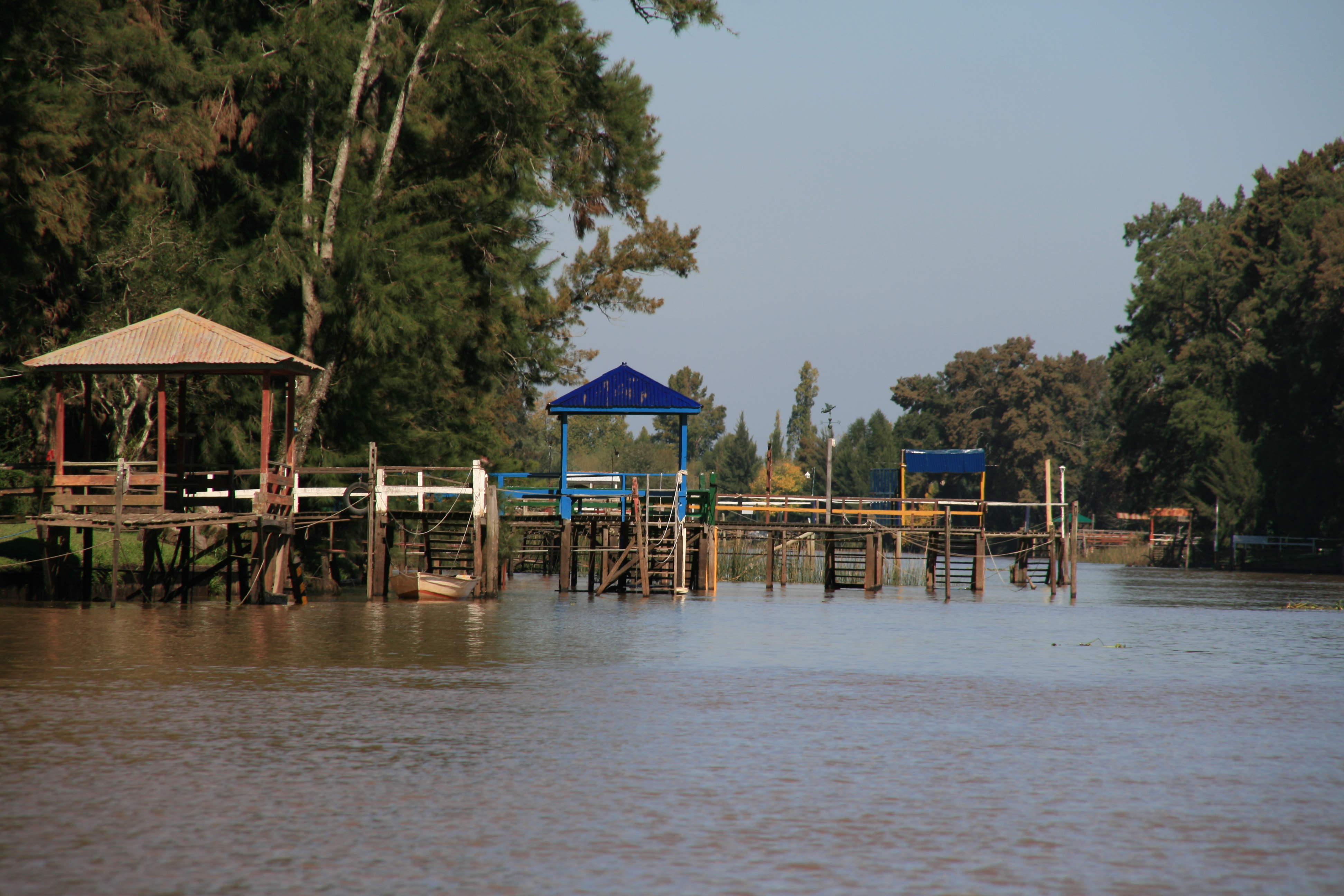 Boat docks in the Lower Delta of the Paraná River, Tigre, province of Buenos Aires, Argentina.